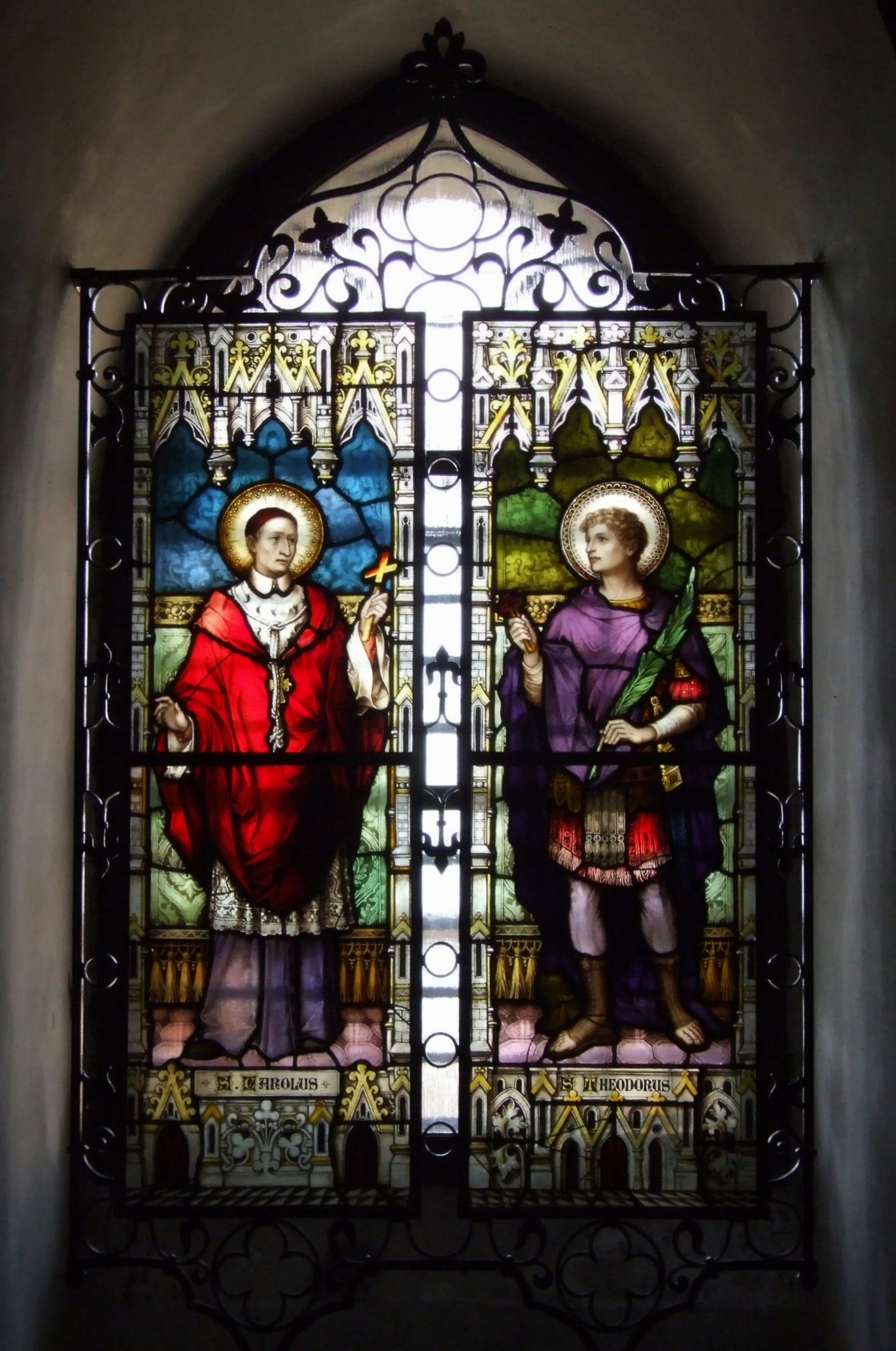 Stained glass in Opole (Oppeln) cathedral